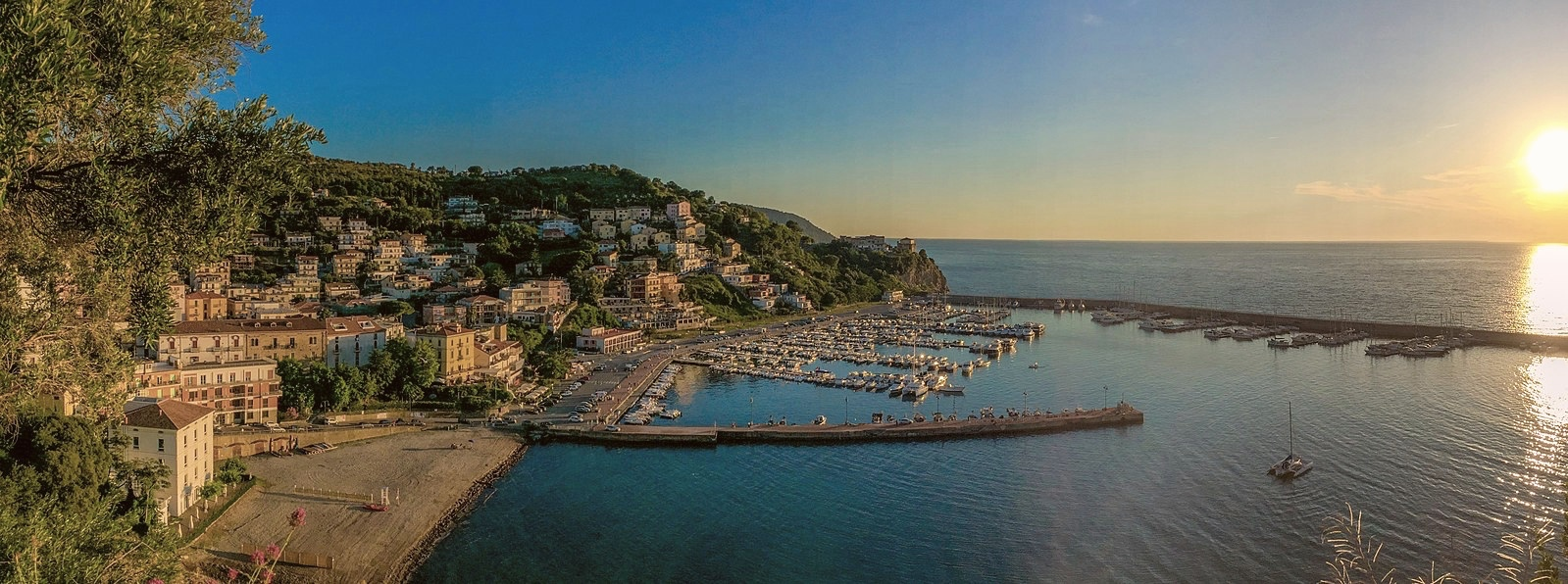 Panorama of Agropoli, SA, Italy, 2015 June